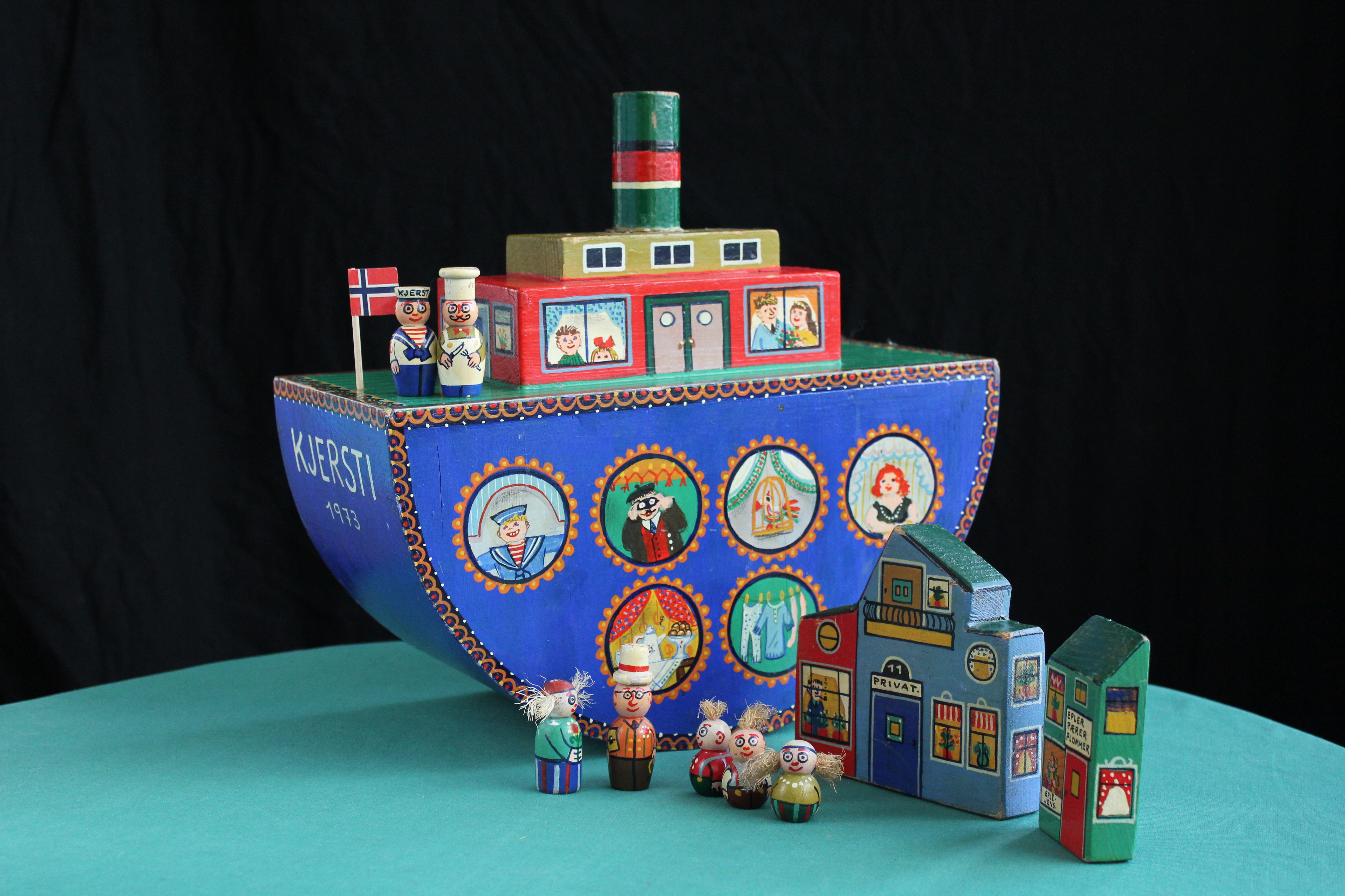 Wooden toys made by the Norwegian artist, actor, designer... Turid Balke.